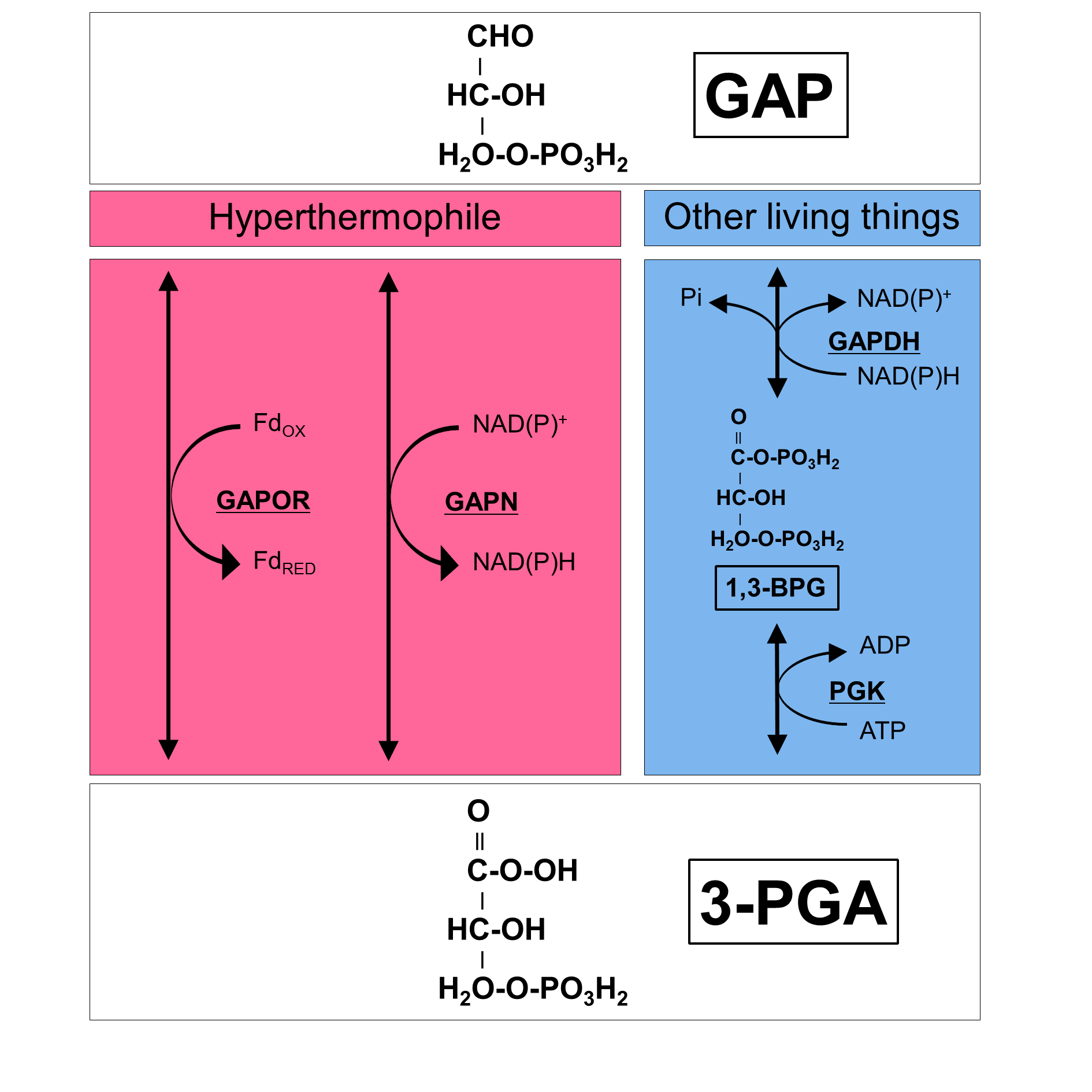 Hyperthermophile convert GAP into 3-PGA with the only one enzyme, GAP ferredoxin oxidoreductase: GAPOR or non-phosphorylating GAP dehydrogenase: GAPN. This pathway in other living things takes an intermediate, 1,3-BPG, with GAPDH and PGK.